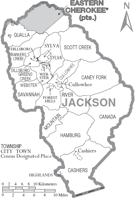 Map of Jackson County, North Carolina, United States with township and municipal boundaries